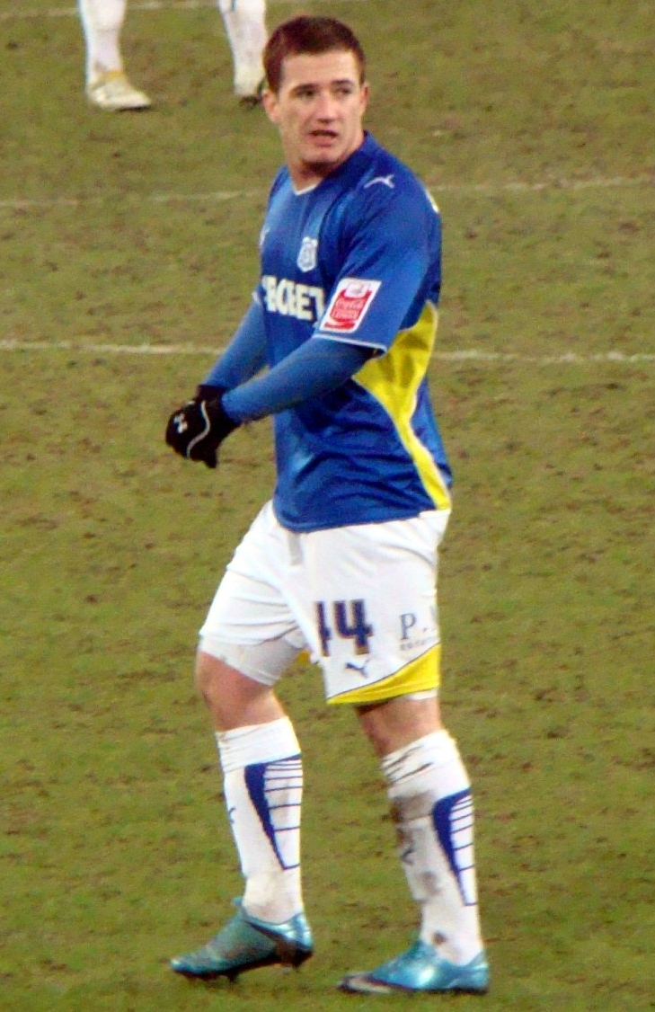 Ross McCormack, Cardiff V Doncaster, Championship, Cardiff City Stadium, Cardiff, Wales